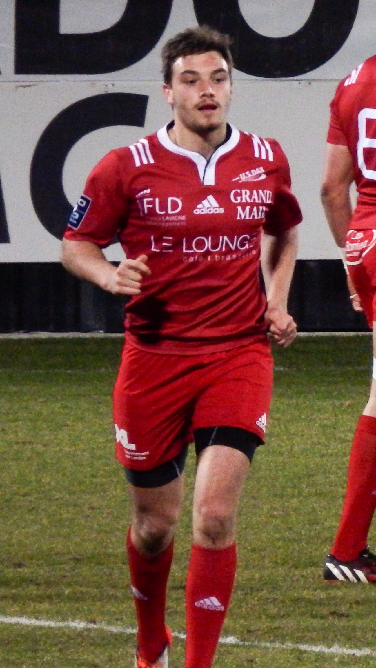 2015–16 Rugby Pro D2 season — 26 February 2016, stade Maurice-David. Match between: Provence Rugby — US Dax